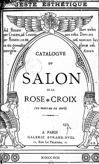 Cropped, adjusted version of PD image from Gallica